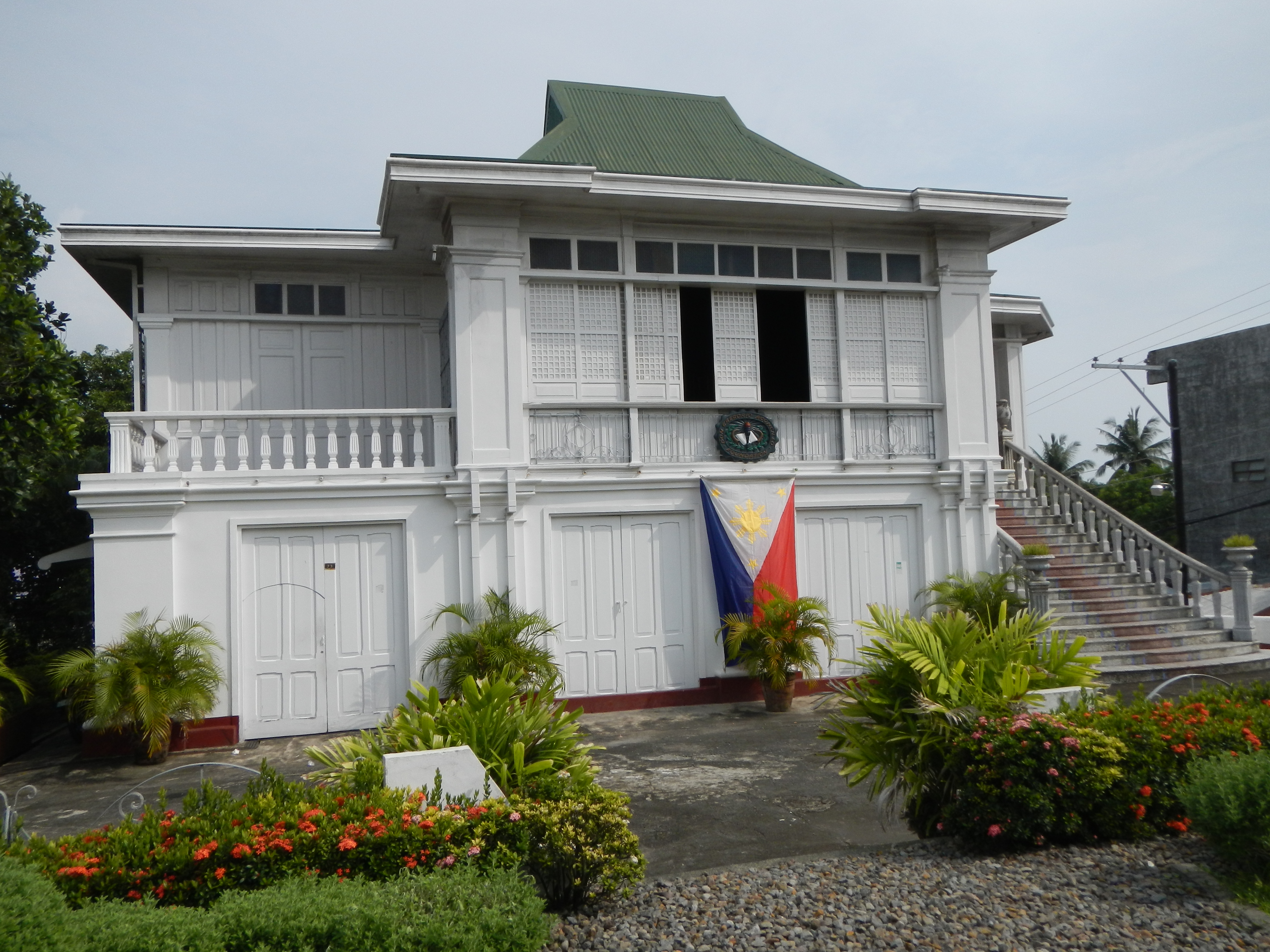 Felipe Agoncillo Ancestral House of Felipe Agoncillo[1] (May 26, 1859 – September 29, 1941) was the Filipino lawyer representative to the negotiations in Paris that led to the Treaty of Paris (1898), ending the Spanish–American War and achieving him the title of "outstanding first Filipino diplomat."[2] [3] [4] Location: Taal, Batangas (Region IV-A) Category: Building Type: House Status: Level II - With Marker Marker Date: 1955 --- Taal, Batangas[5]Taal is a second class municipality in the province of Batangas, Philippines. According to the latest census, it has a population of 51,459 people in 8,451 households.